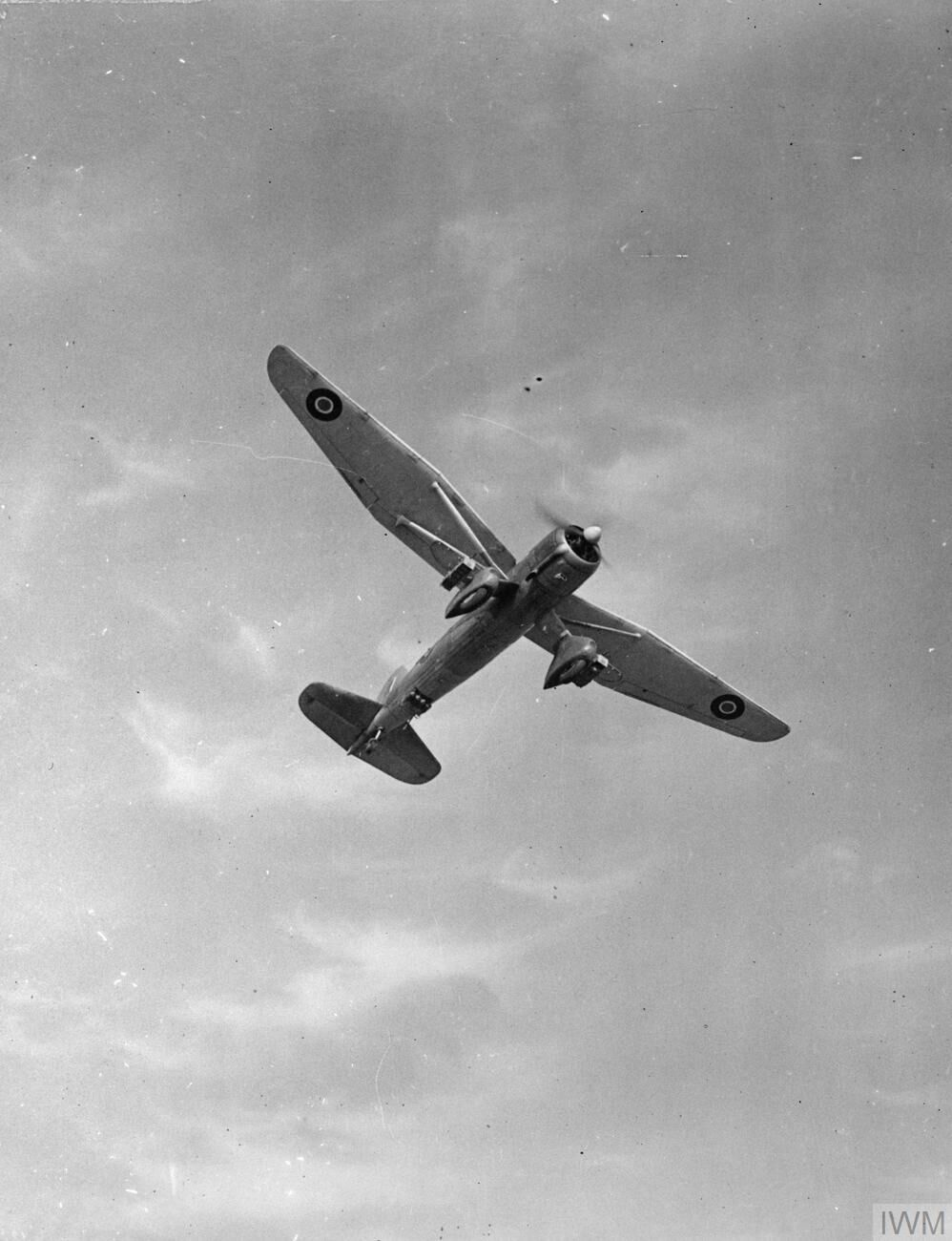 Royal Air Force Fighter Command, 1939-1945. Westland Lysander Mark IIIA, V9547 ‘BA-E’, an air-sea rescue aircraft of No. 277 Squadron RAF, airborne from Hawkinge, Kent, with a couple of M-Type dinghy containers slung under the stub-wings just above the spatted landing wheels, and four smoke floats fitted to the small bomb carrier on the rear fuselage.